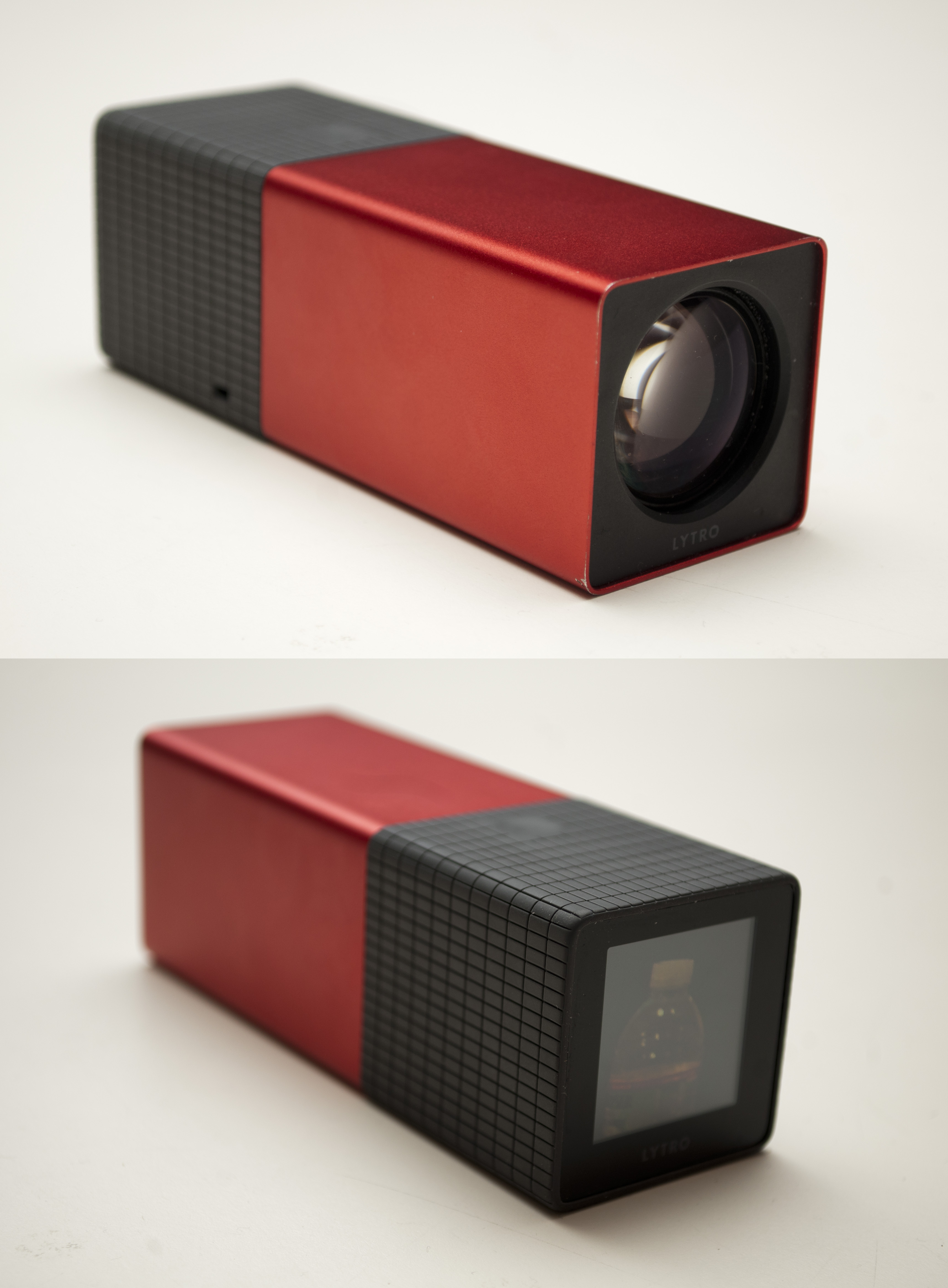 Composite of File:Lytro light field camera - front.jpg and File:Lytro light field camera - back.jpg. Taken after a presentation by CEO Ren Ng at HP Auditorium, Soda Hall, University of California, Berkeley. The unit was fully functional; at this time the cameras were on preorder but not quite yet shipping. This one is the "red hot" color with 16 GB of internal storage, and sold for 499 USD at the time.